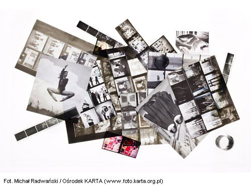 Zbiory Archiwum Fotografii Ośrodka KARTA. Fot. Michał Radwański/Ośrodek KARTA.